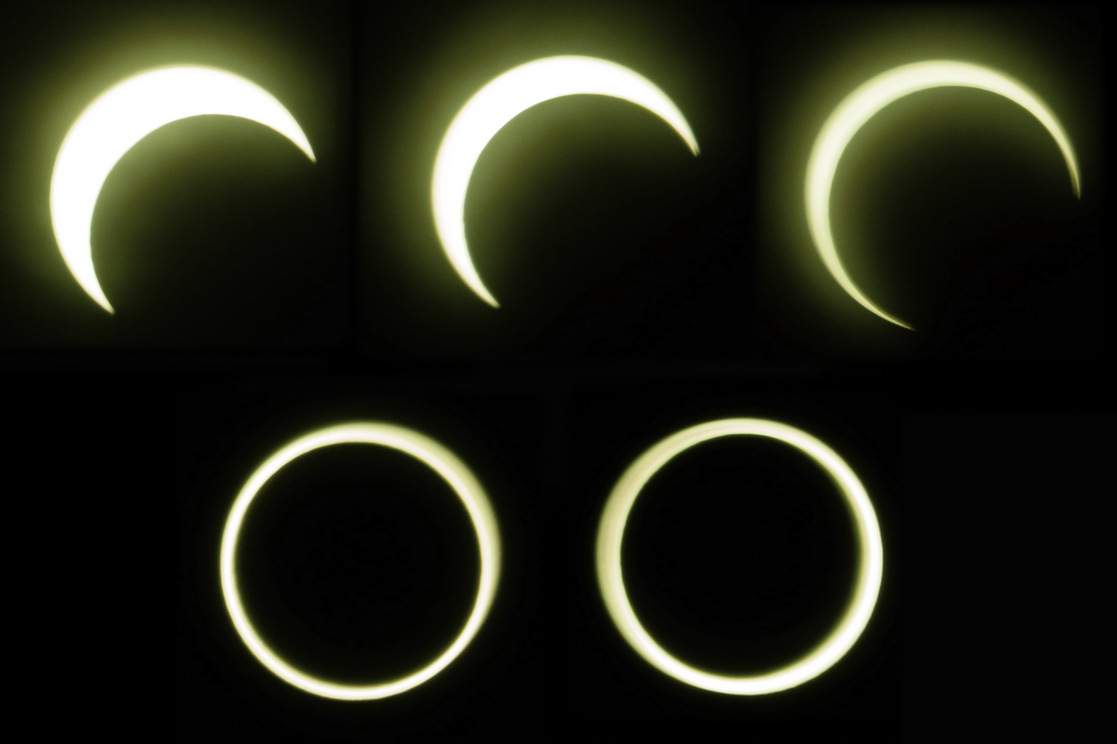 Sequence of annular eclipse photos taken from Pyramid Lake, Nevada. I used the extreme optical zoom of a Nikon camera and manually held two green glass filters in front of the lens as the photo was taken to provide maximum filtering.